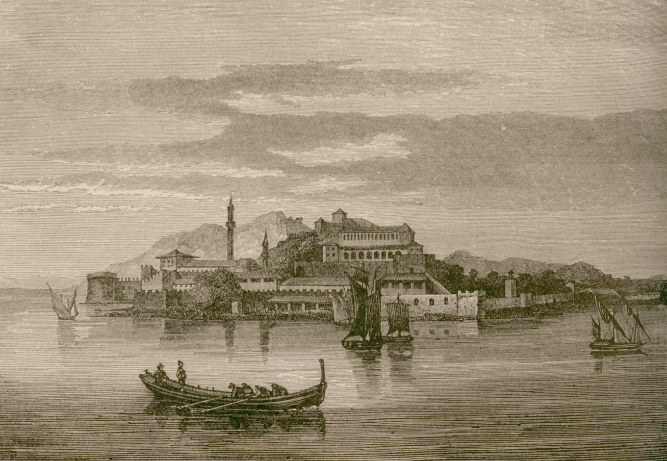 Christopher Wordsworth. Greece Pictorial, Descriptive, & Historical, and a History of the Characteristics of Greek Art, London, John Murray, 1882.